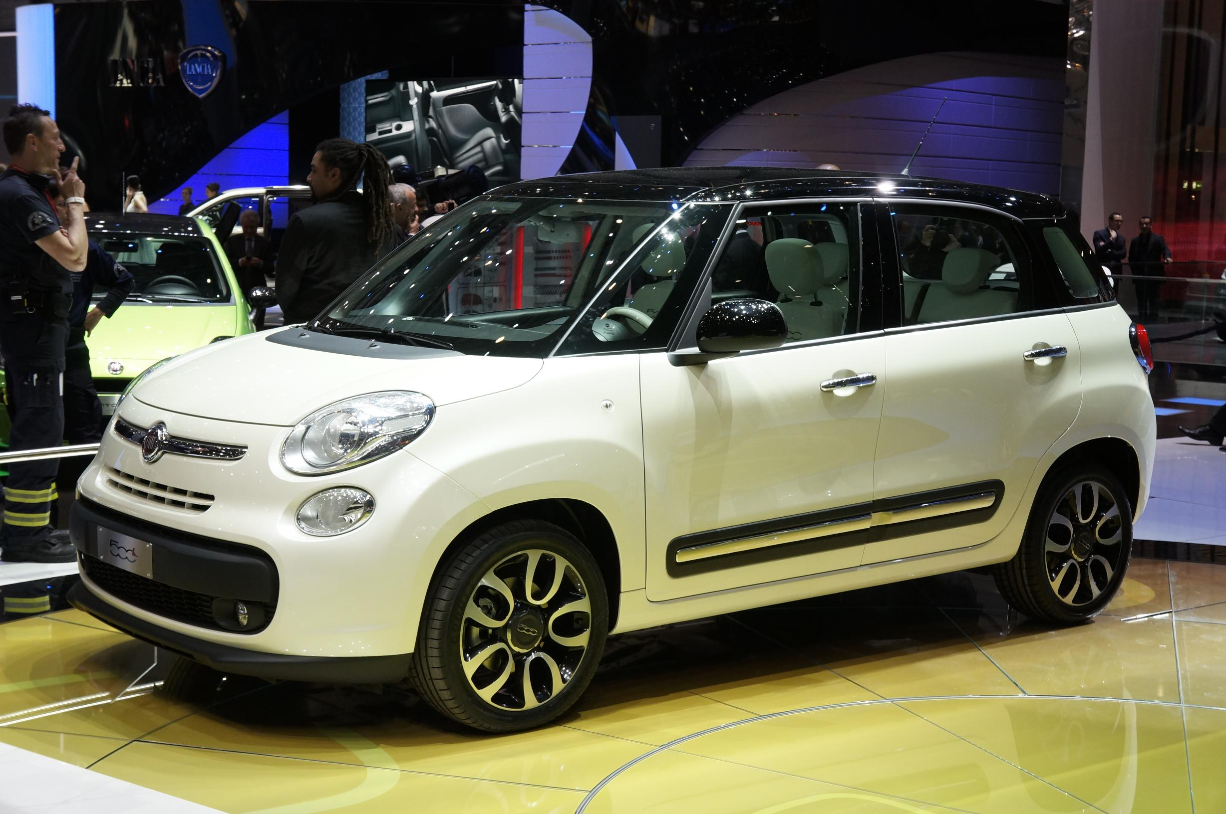 There was plenty of high-end metal being unveiled at the Geneva Motor Show, but the likes of the one-off Lamborghini Aventador J, the Ferrari F12 Berlinetta, and the Maserati GranTurismo Sport, and others weren’t the real show stoppers... there were plenty of the big-end players downsizing: Mercedes-Benz A-Class, Audi A3, Volvo V40, and much more. Here’s what flicked our switch. You can check out more on the 2012 Geneva Motor Show here at; as well as